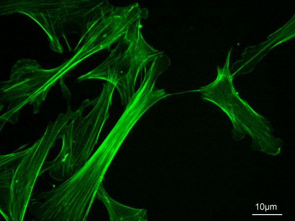 Microfilament (actin cytoskeleton) of mouse embryo fibroblasts, stained with FITC-phalloidin (100-fold magnification.)